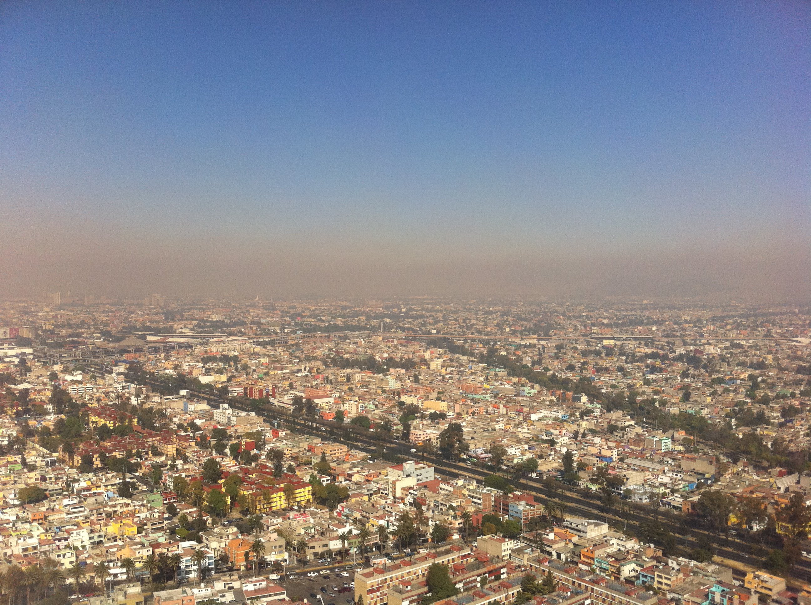 Aerial View of Photochemical Smog over Mexico City